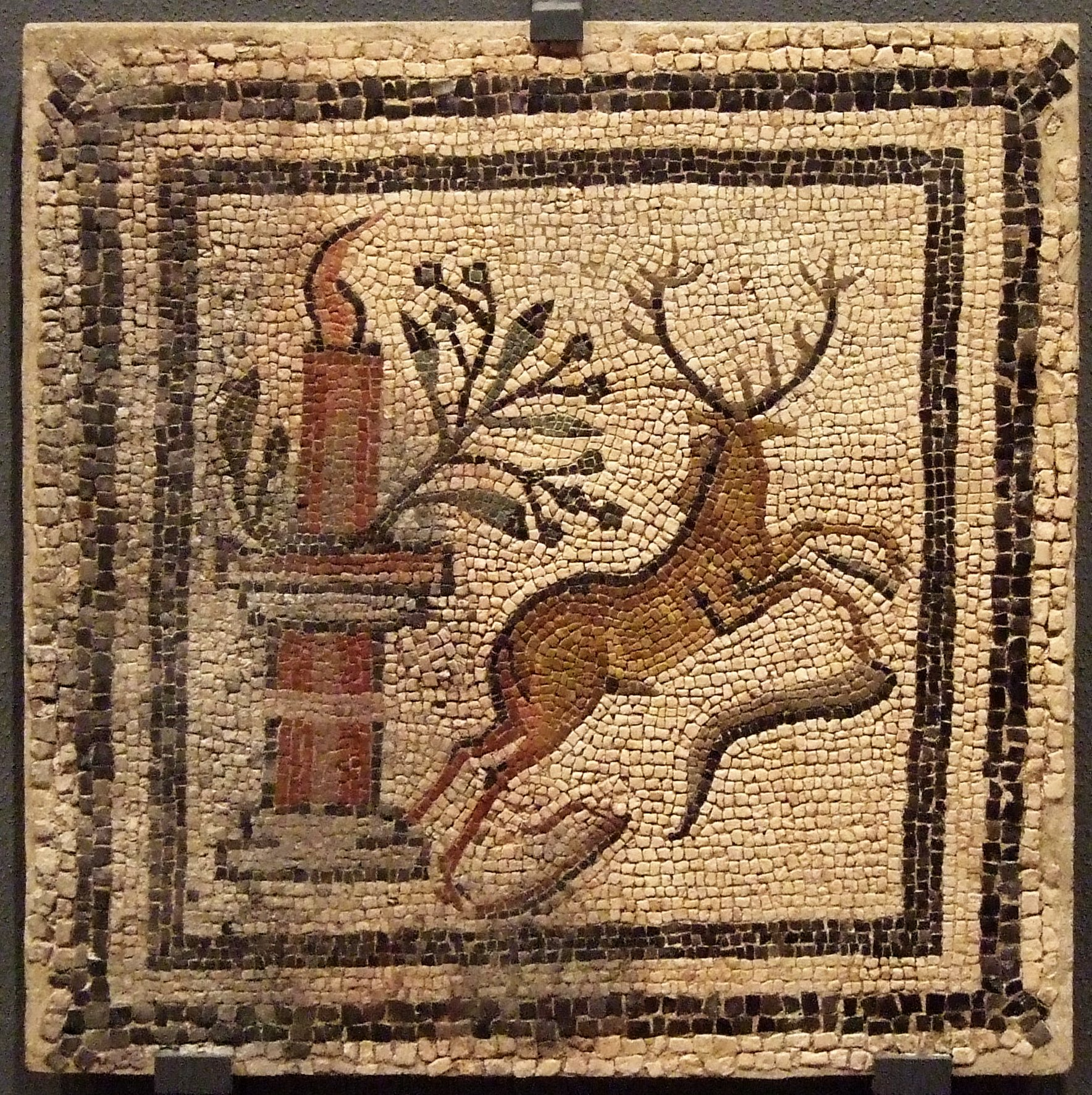 Agricultural calendary (2nd half of 4th c AC). Villa Fortunatus. Mosaic